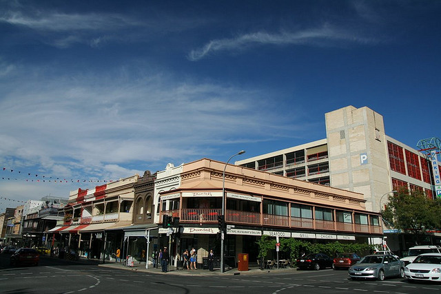 Corner of Rundle Street (left) and Frome Street (right), in the Adelaide city centre, looking southeast, 2008